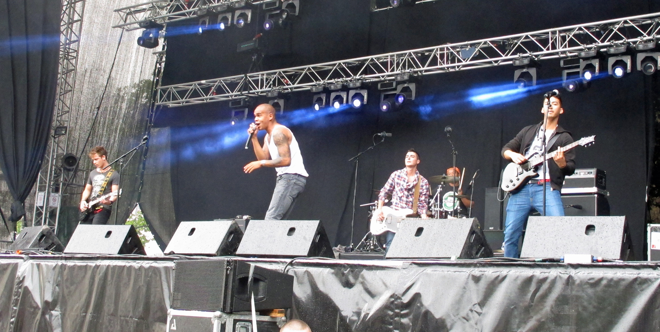 The Gambling Badgers at Rock um Knuedler 2012 in Luxembourg